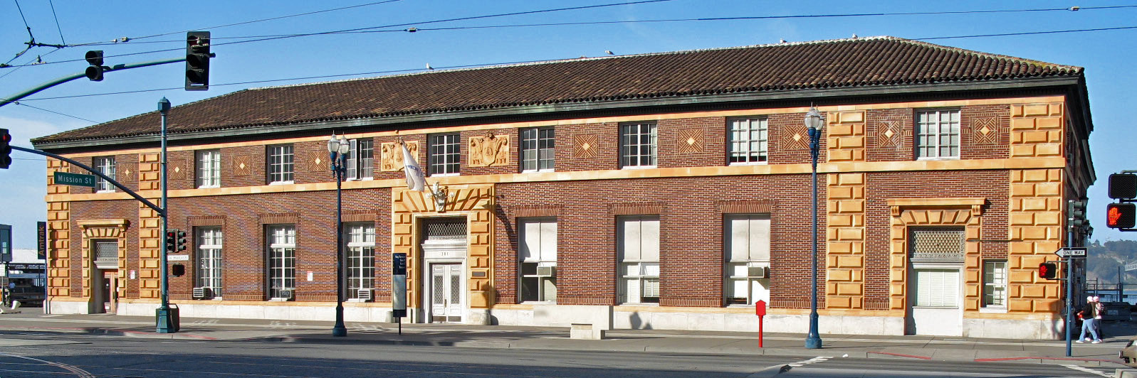 National Register of Historic Places in San Francisco, California. Ferry Station Post Office, Embarcadero & Mission, San Francisco, California. Photographed from the southwest corner of Mission St. and The Embarcadero.